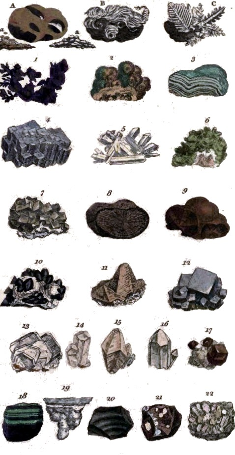 Mineral illustration from